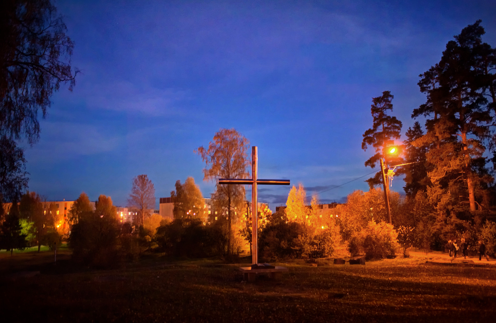 The local church was located in this place 1888-1940, in Johannes (Советский), old Finnish city, but now part of Russia. .